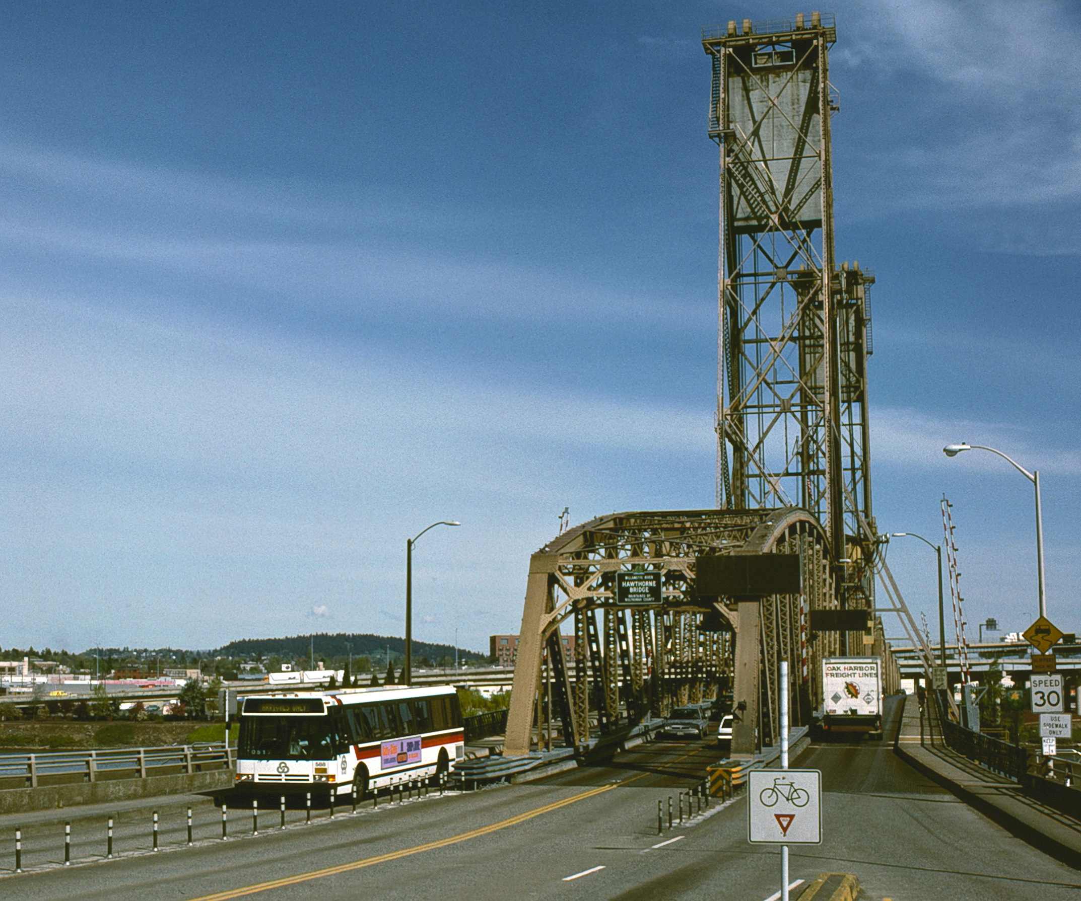 The west end of the Hawthorne Bridge, in Portland, Oregon, in 1993. The bridge wore this yellow-ochre color from 1964 until 1998, and was then repainted dark green. A TriMet bus is leaving the bridge to enter downtown Portland.